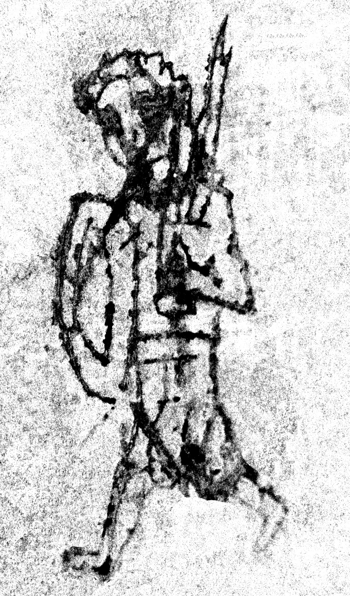 Graffiti from Russian church of the 12th century 'Spas na Neredize' (near Novgorod)